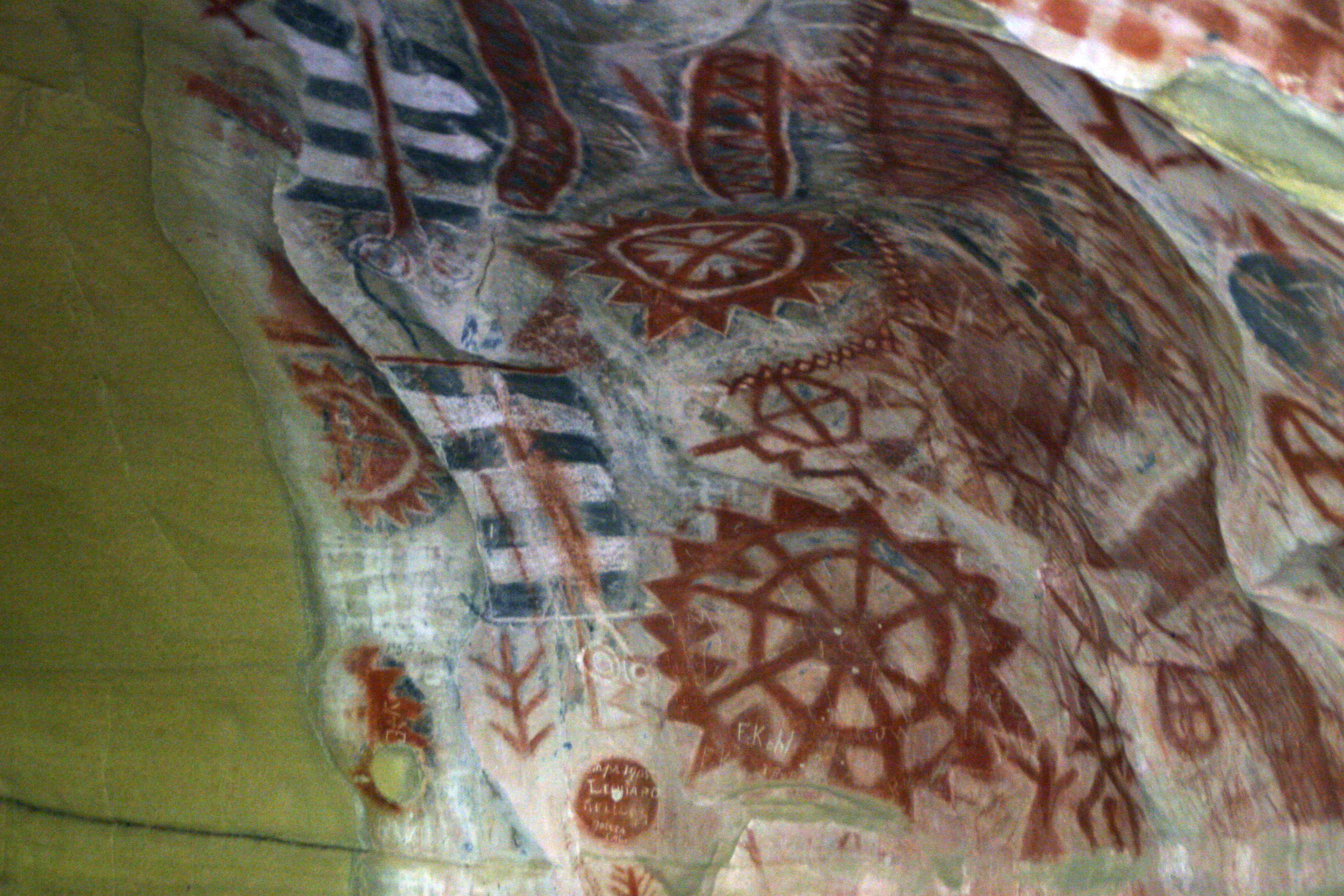 Chumash art on the walls of Painted Cave in the mountains above Santa Barbara.